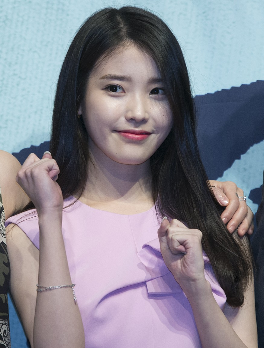 KBS "The Producers" press conference, 11 May 2015. IU.